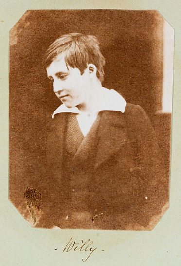 A photograph of William Mansel (1838-1866) smiling at something off camera. Taken c.1853. Dyddiad/Date: 1853 Cyfeiriad/Reference: Rhif cofnod / Record no.: Rhagor o wybodaeth am Ffotograffiaeth Gynnar Abertawe yn Llyfrgell Genedlaethol Cymru More information about Early Swansea Photography at the National Library of Wales